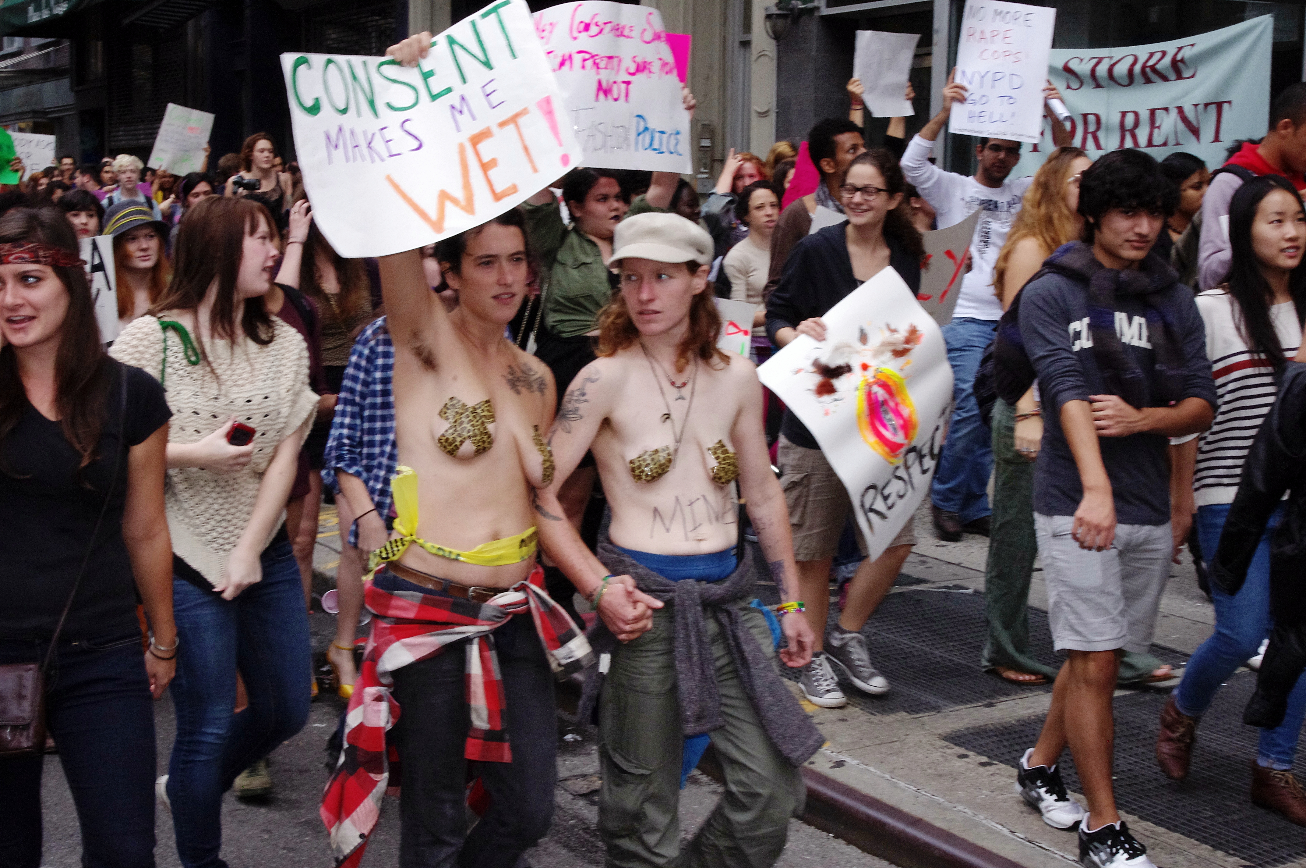 Photos from SlutWalk NYC on Saturday in Manhattan's Union Square.